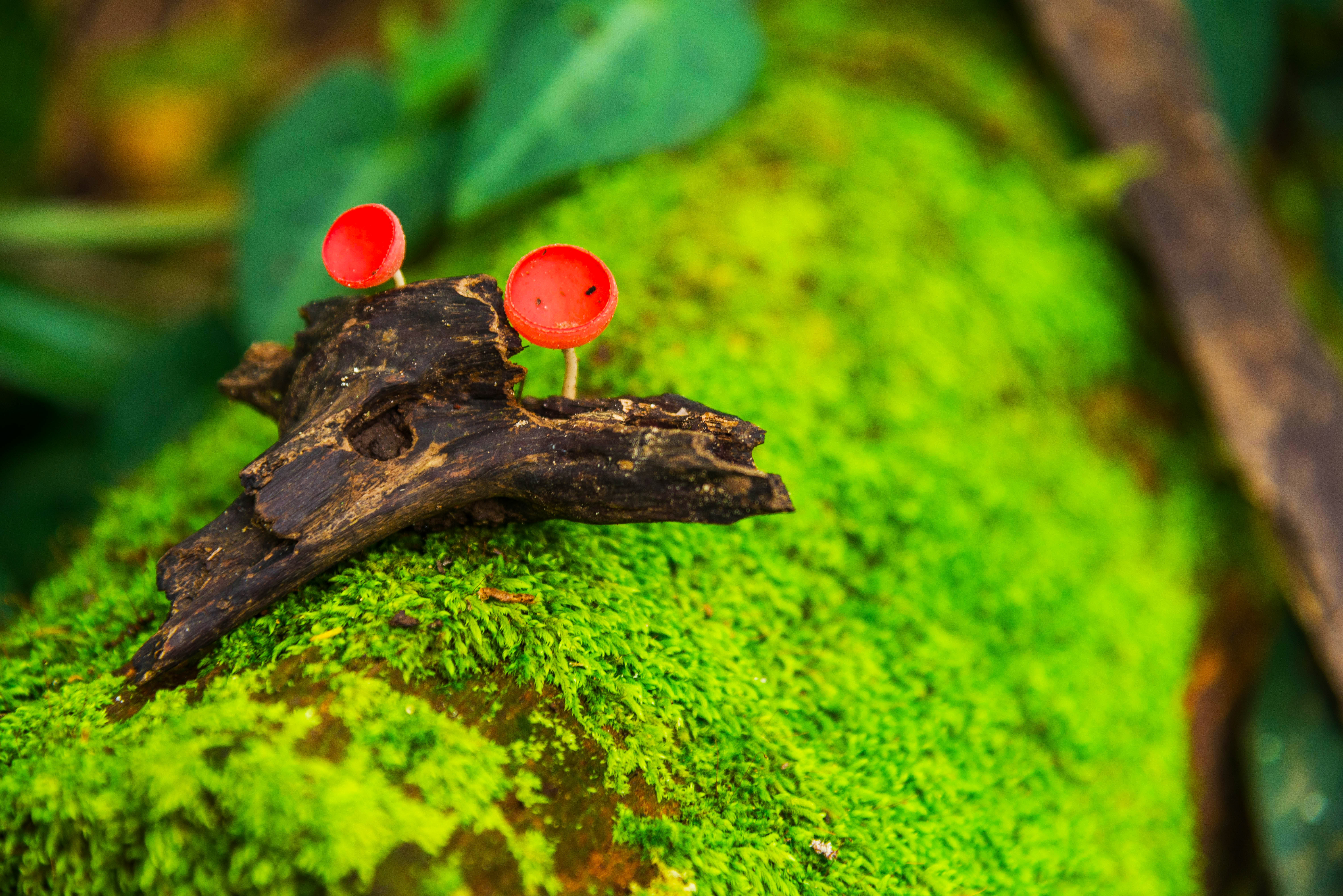 Cookeina sulcipes and Mosses found in the tropical rainforest in Khao Yai National Park, Thailand